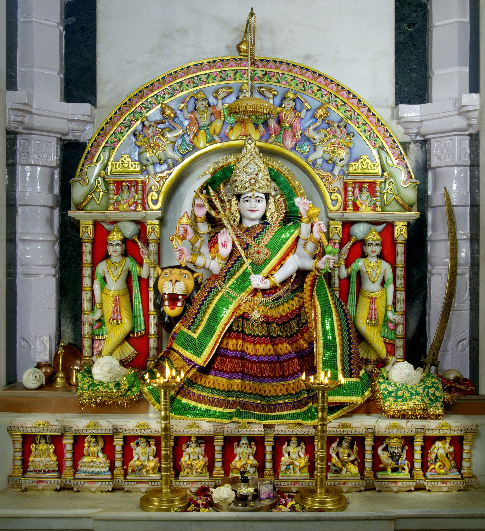 This is is photo of Ashapura Mataji at Gadhakda Village in Amreli District